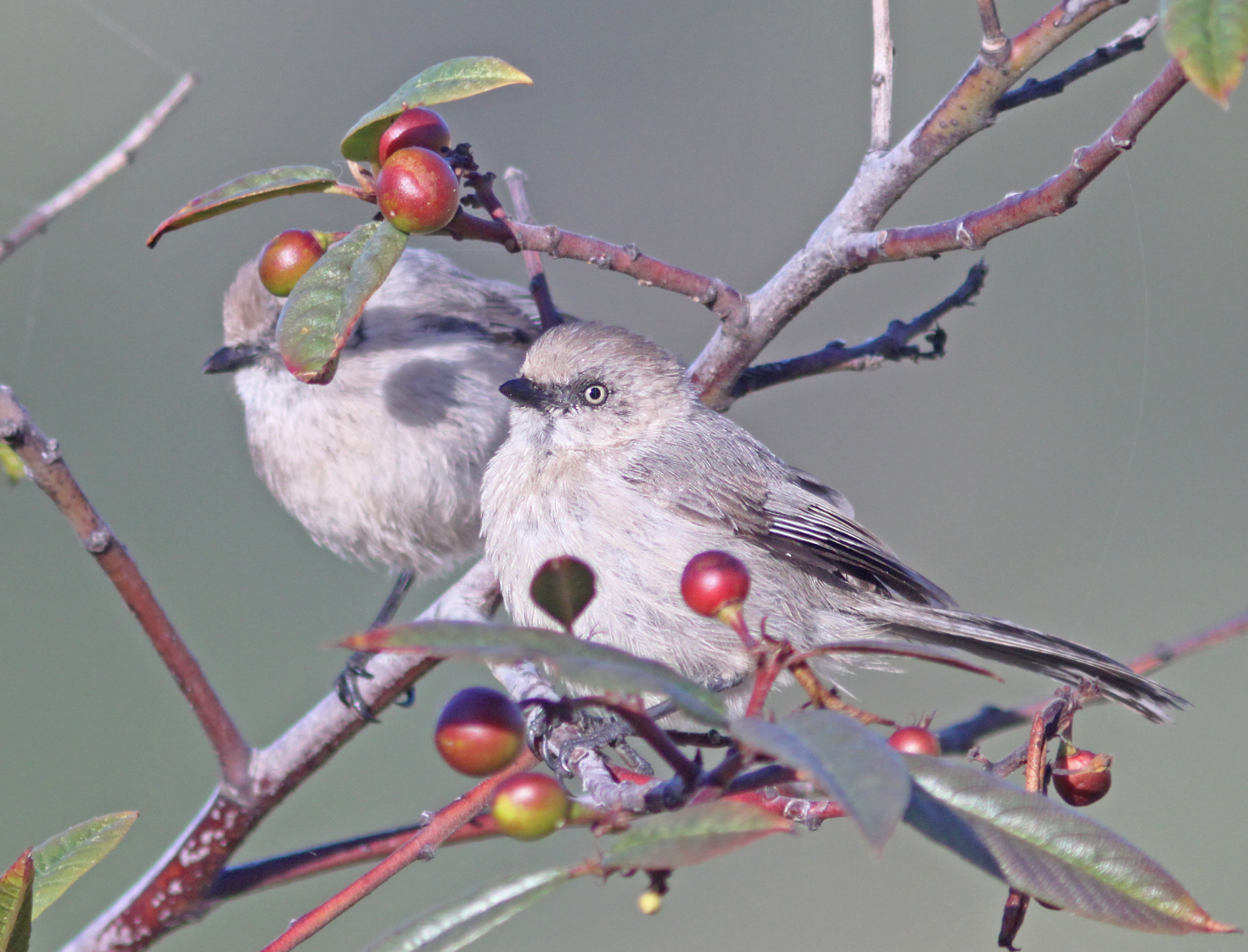 Common Bushtit Psaltriparus minimus minimus, female, Morro Bay, San Luis Obispo County, California